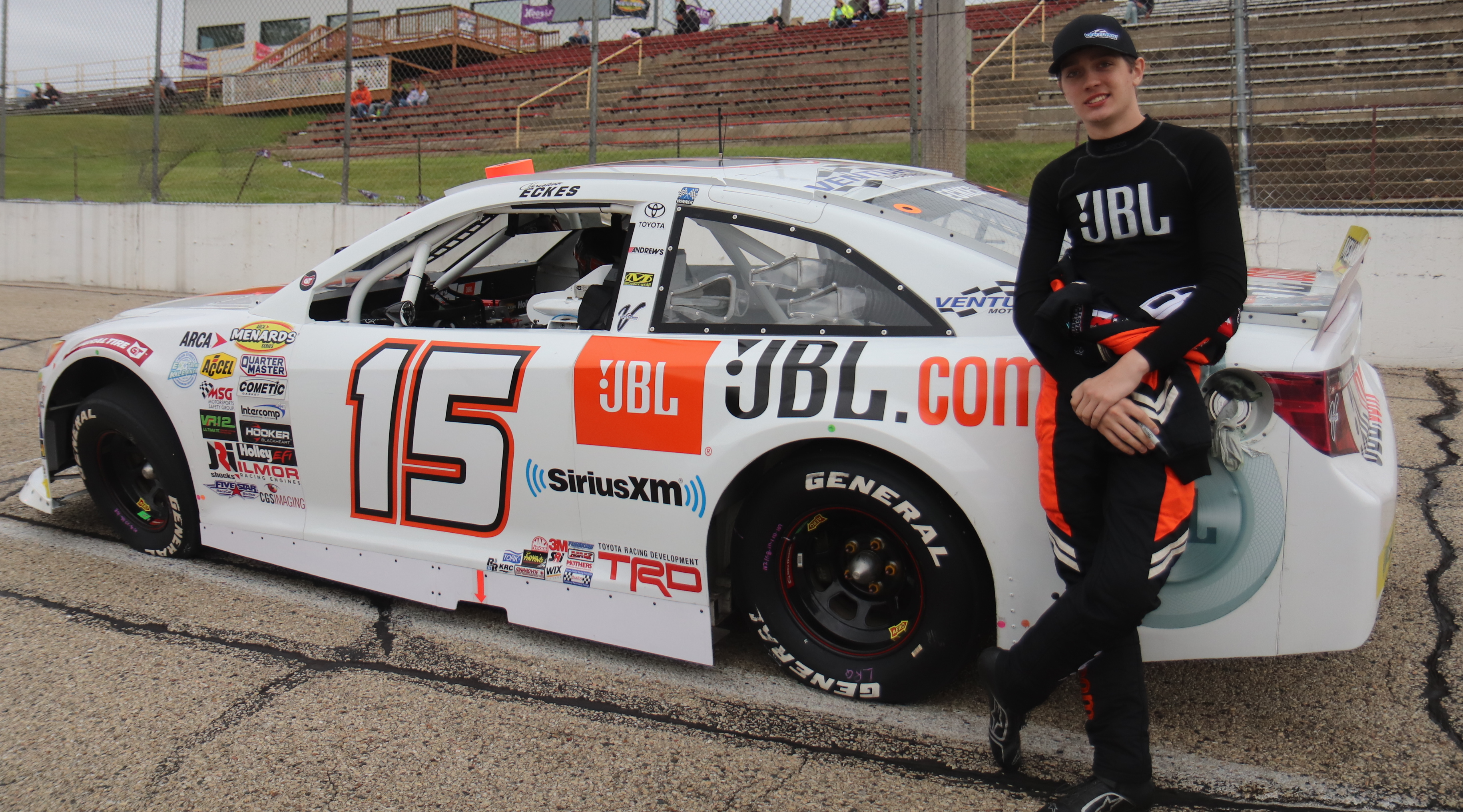 Christian Eckes stands beside the #15 Toyota Camry ARCA car at Madison.